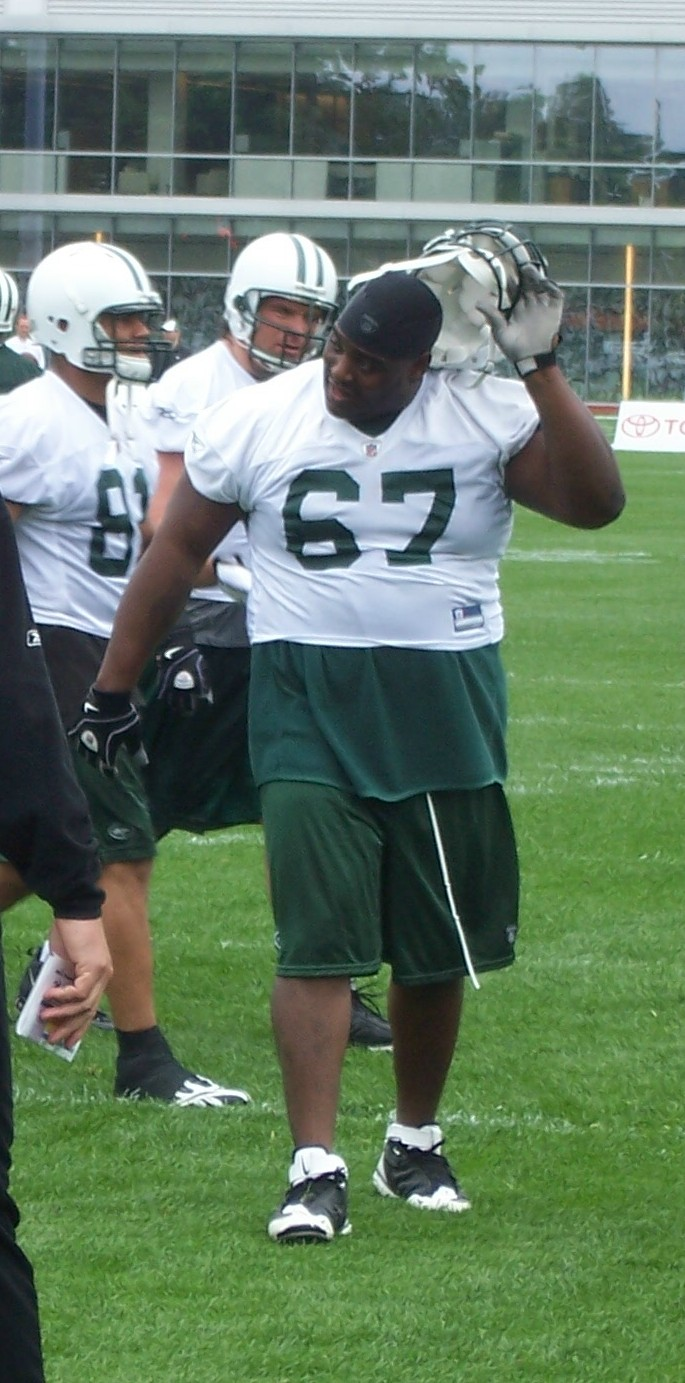 Damien Woody at a New York Jets mini-camp in Florham Park, NJ